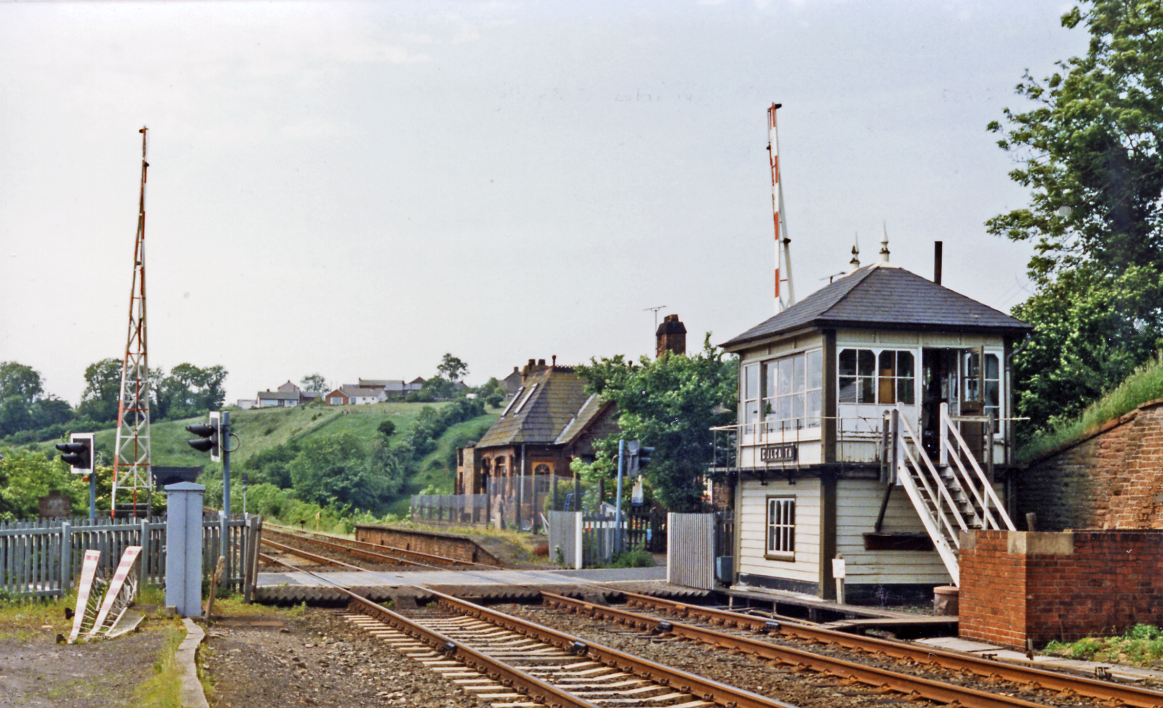 Culgaith station (remains), 1986. View NW, towards Carlisle: ex-Midland Leeds - Settle - Carlisle main line. The station was closed from 4/5/70, but the line thrives.